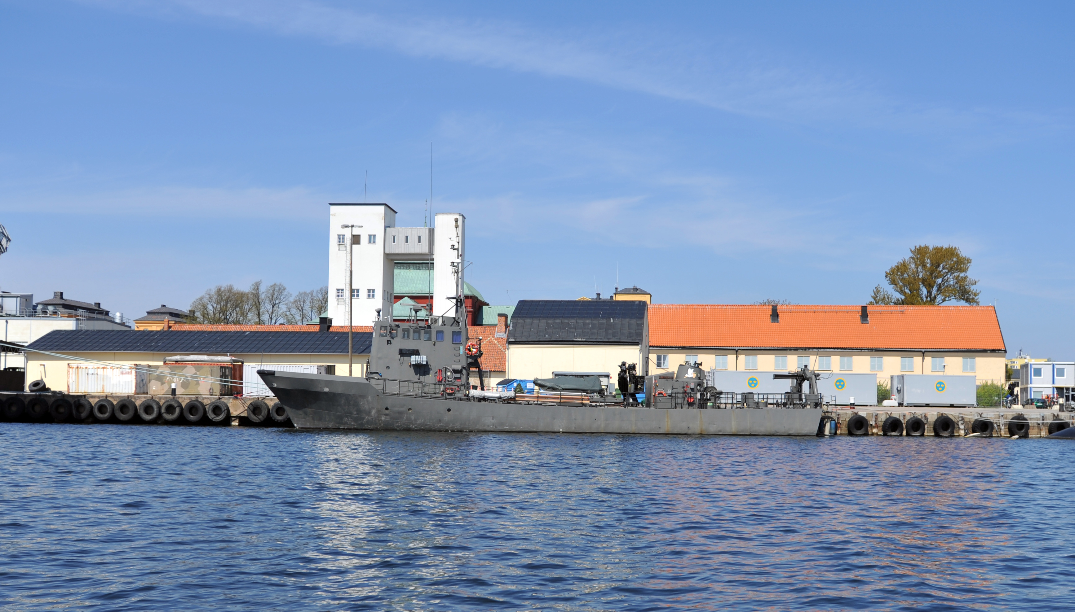 HMS Pelican (A247) is a torpedo and missile recovery vessel in the Swedish navy.